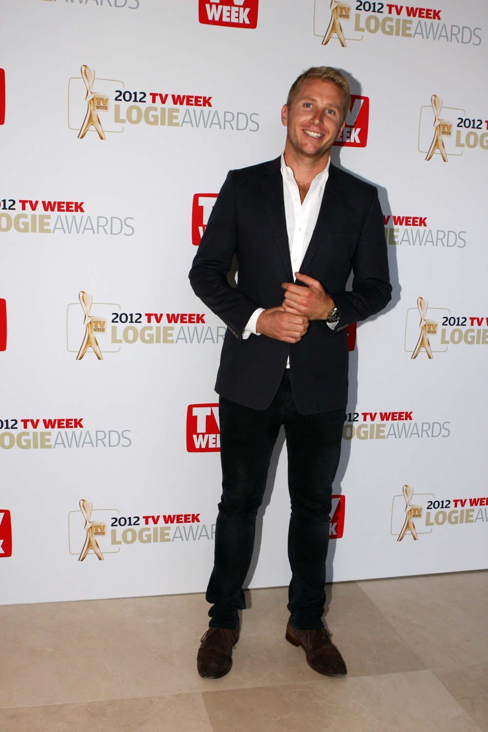 Hamish Macdonald, TV Week Logie Nominations In Sydney, Australia